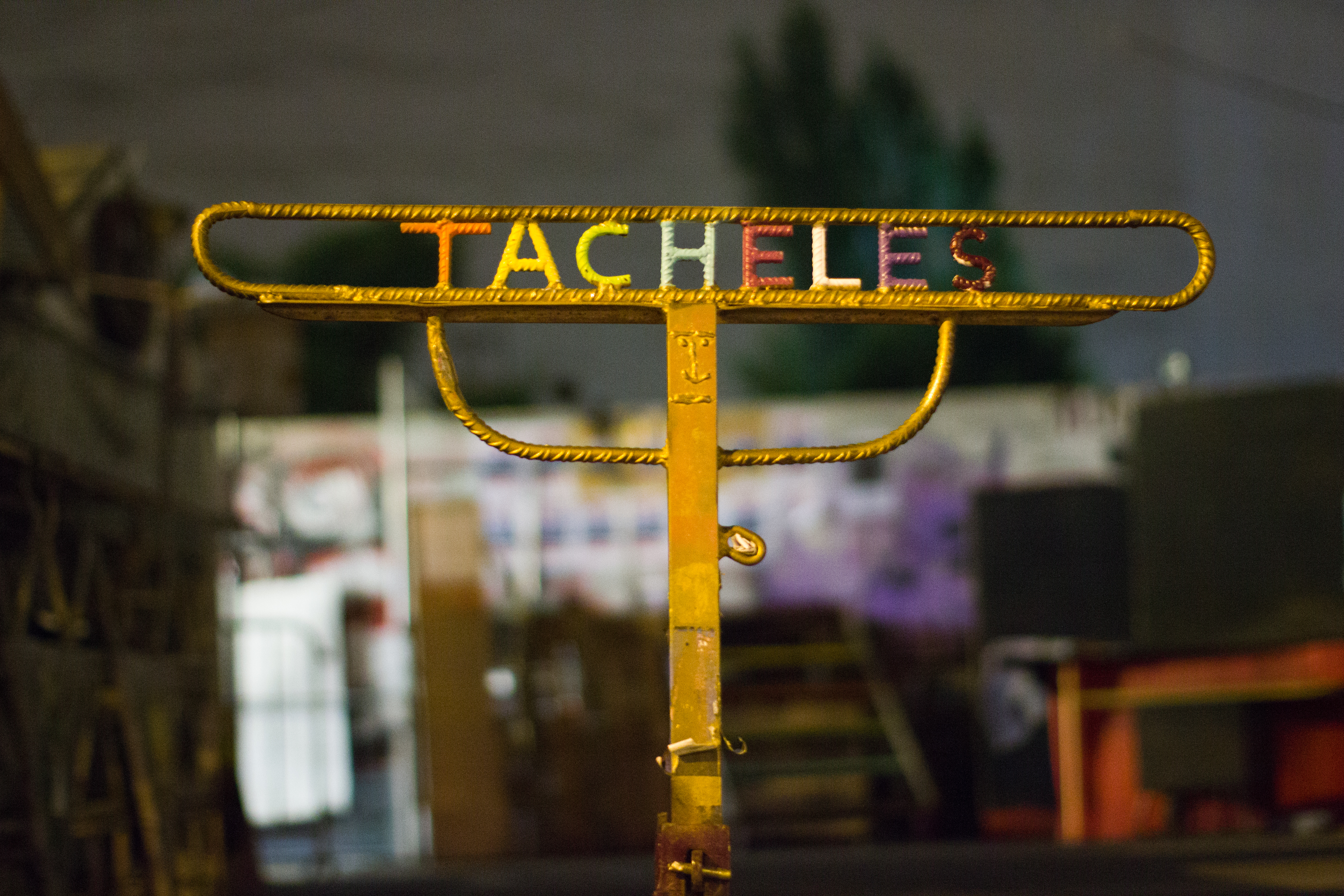 Tacheles Sign Metal